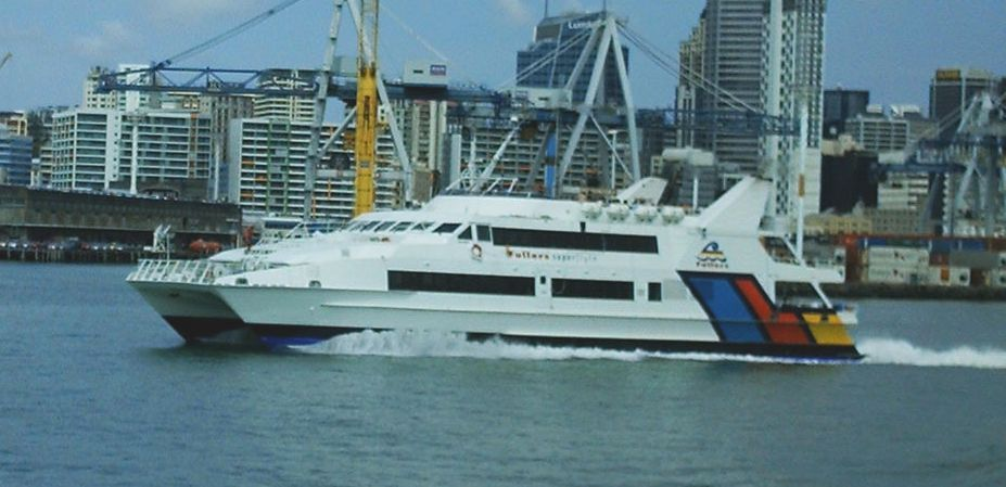 Photo of a Fullers ferry in Auckland, New Zealand.